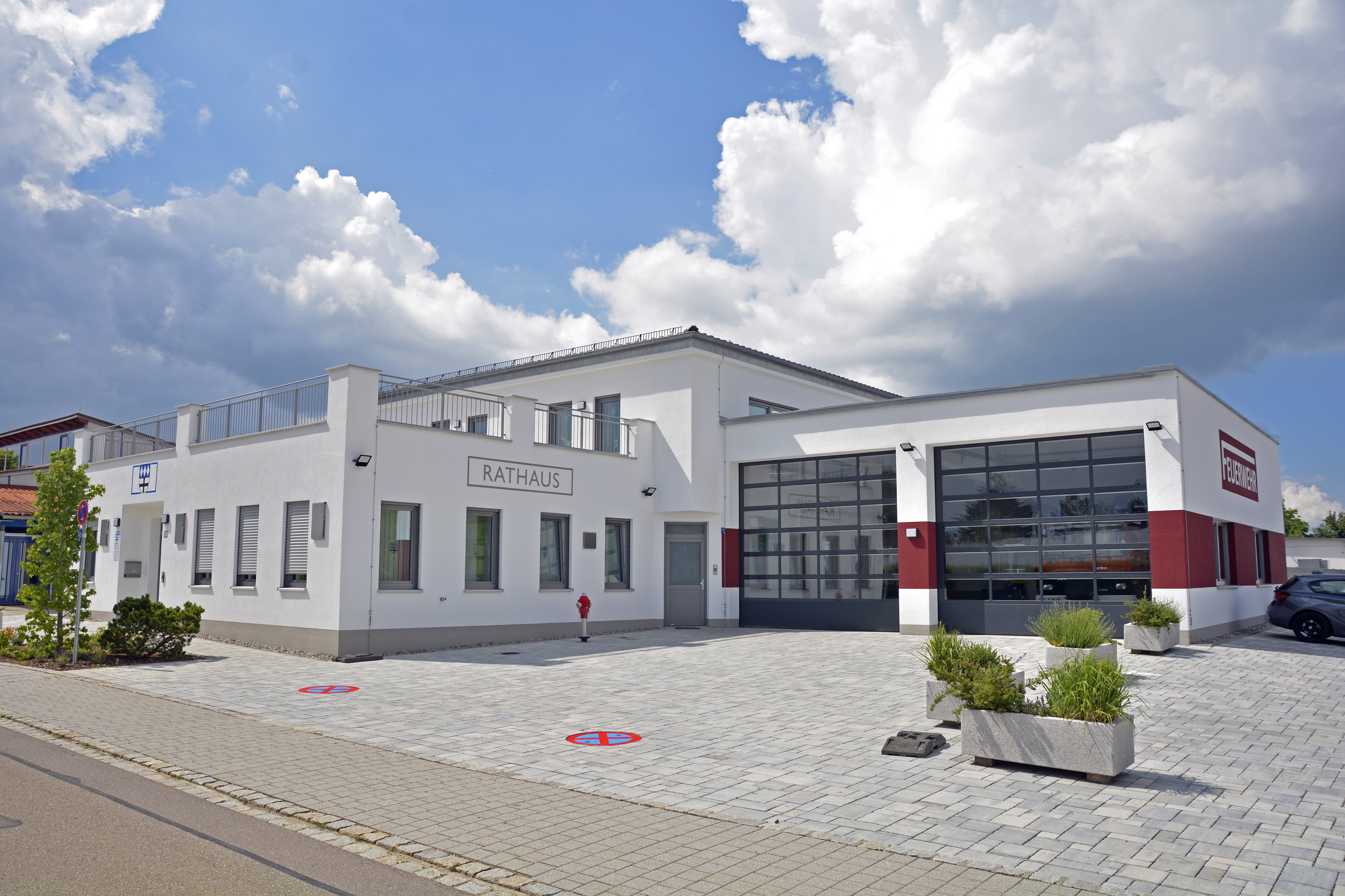 Schiltberg (District Friedberg-Aichach) - Town Hall and fire station